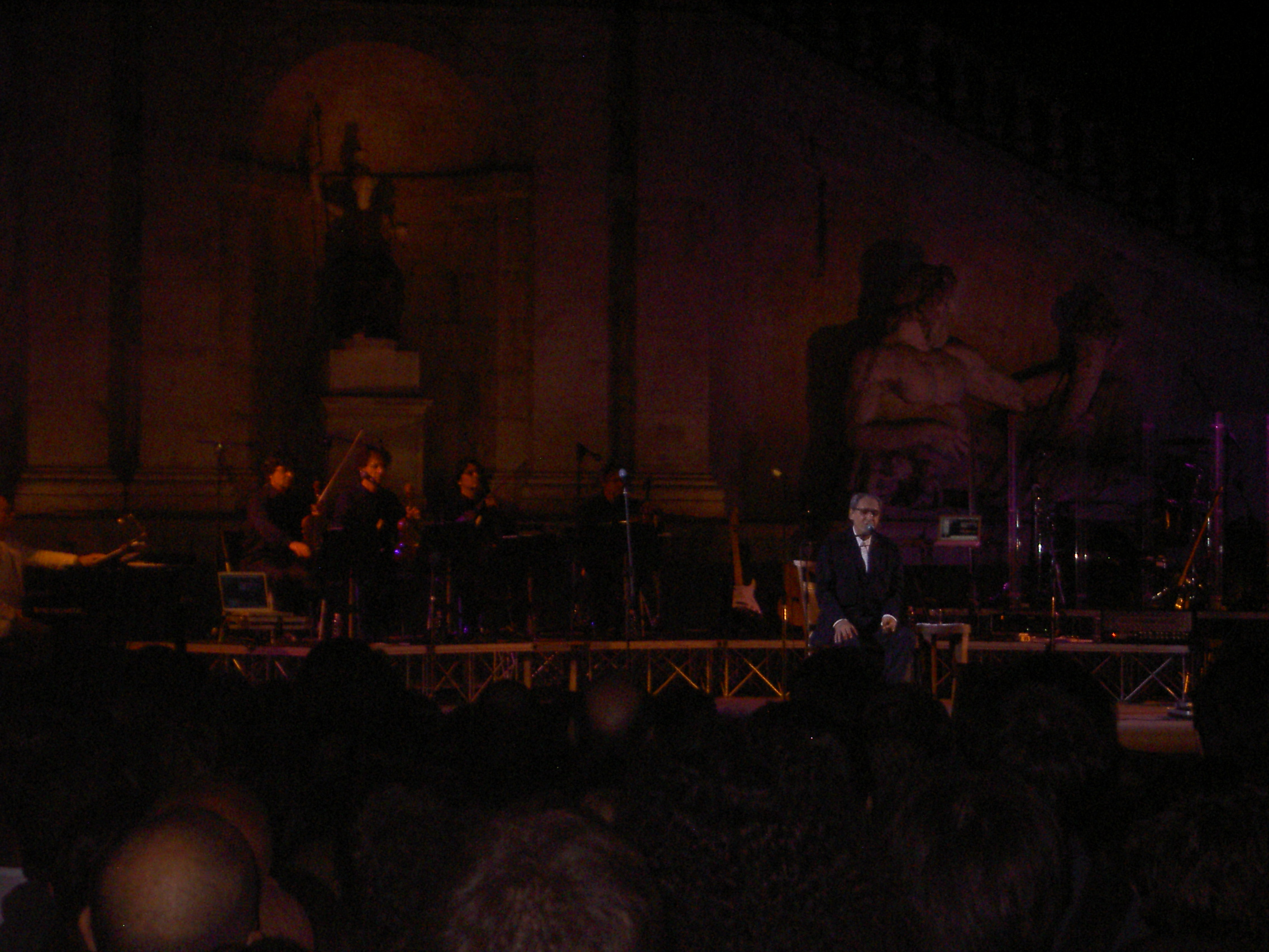 A Franco Battiato' s concert, in Piazza del Campidoglio,Rome, during the "Notte Bianca 2007"